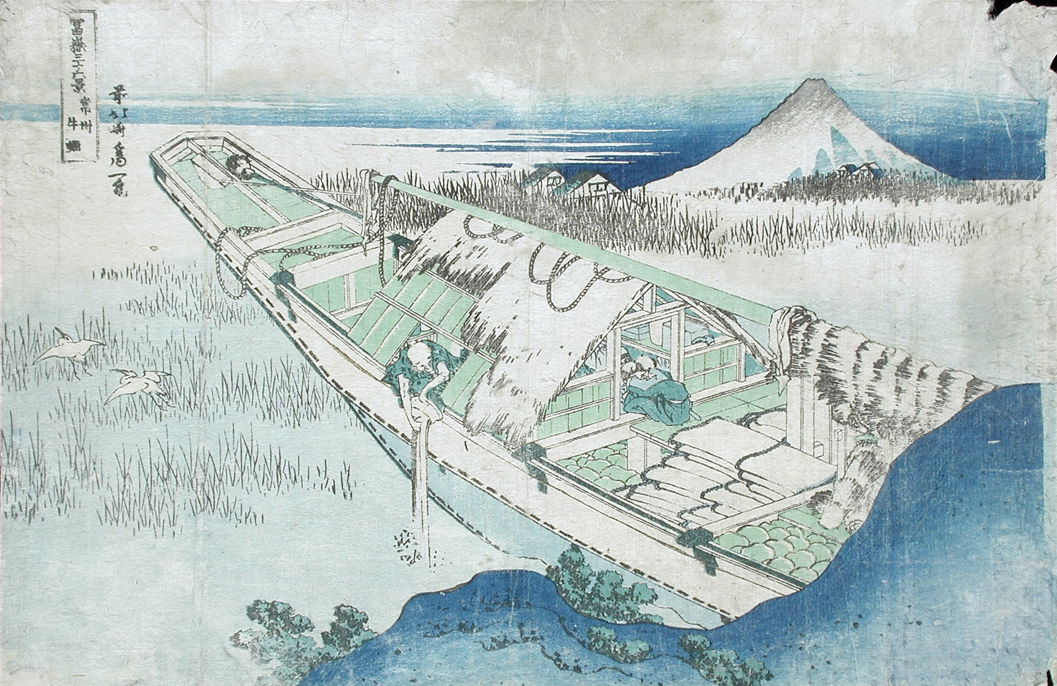 Japan, 19th century Series: Thirty-six Views of Fuji Prints; woodcuts Color woodblock print, later edition REPRODUCTION Image: 9 5/8 x 14 3/4 in. (24.5 x 37.5 cm); Paper: 9 5/8 x 14 3/4 in. (24.5 x 37.5 cm) Gift of Judson D. Metzgar (46.38.12) Japanese Art